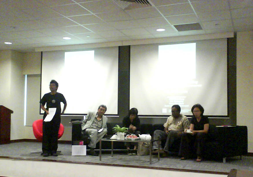 Susie Lingham (moderator, standing), Cheo Chai-Hiang, Hong Sek Chern, T.K. Sabapathy and Joanna Lee (seated) at a roundtable session entitled Remembering Chua Ek Kay: Ink Painting and the Idea of the Contemporary in Seminar Room #02-08 of the Nanyang Academy of Fine Arts (NAFA) on 18 March 2008.